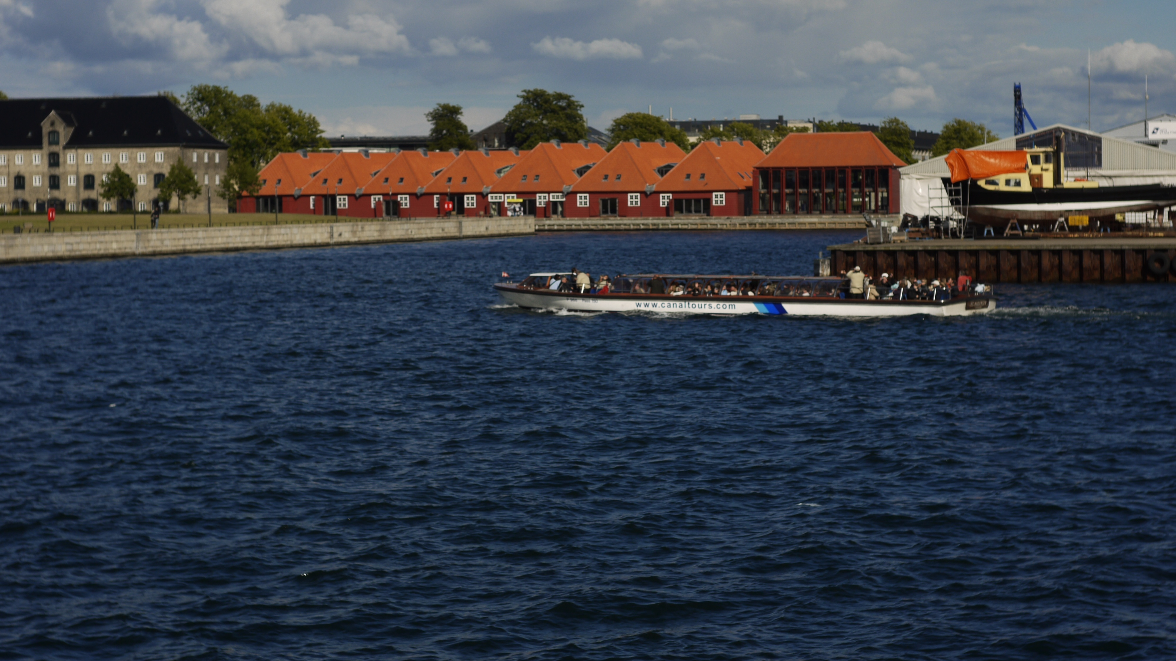 DFDS Canal Tours boat at Holmen in Copenhagen, Denmark